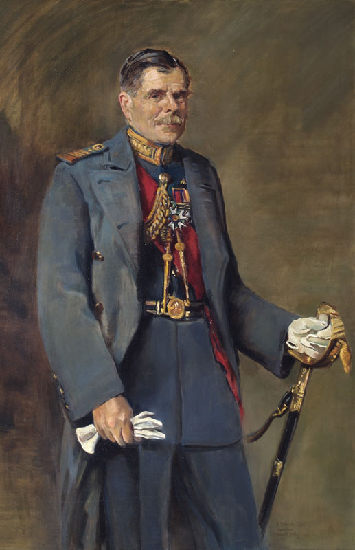 Marshal of the Royal Air Force the Lord Trenchard in RAF full dress. Formal portrait.